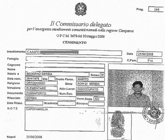 Identity card in Italy with a fingerprint of a Roma. Read also this article.